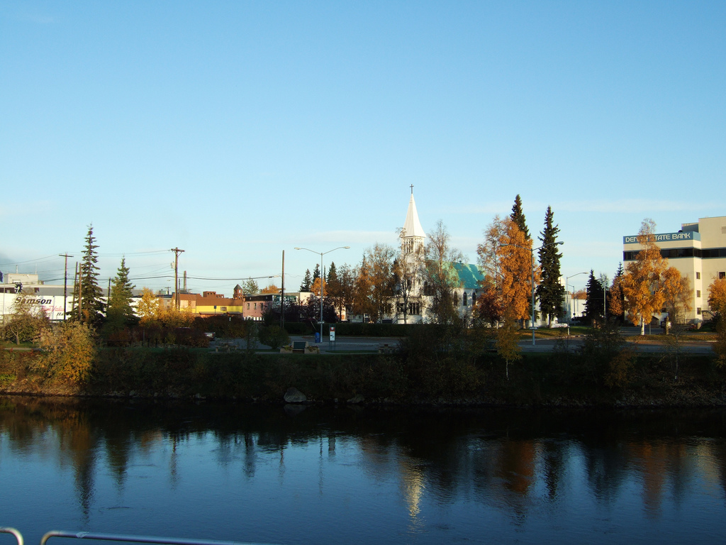 Downtown Fairbanks, Chena River